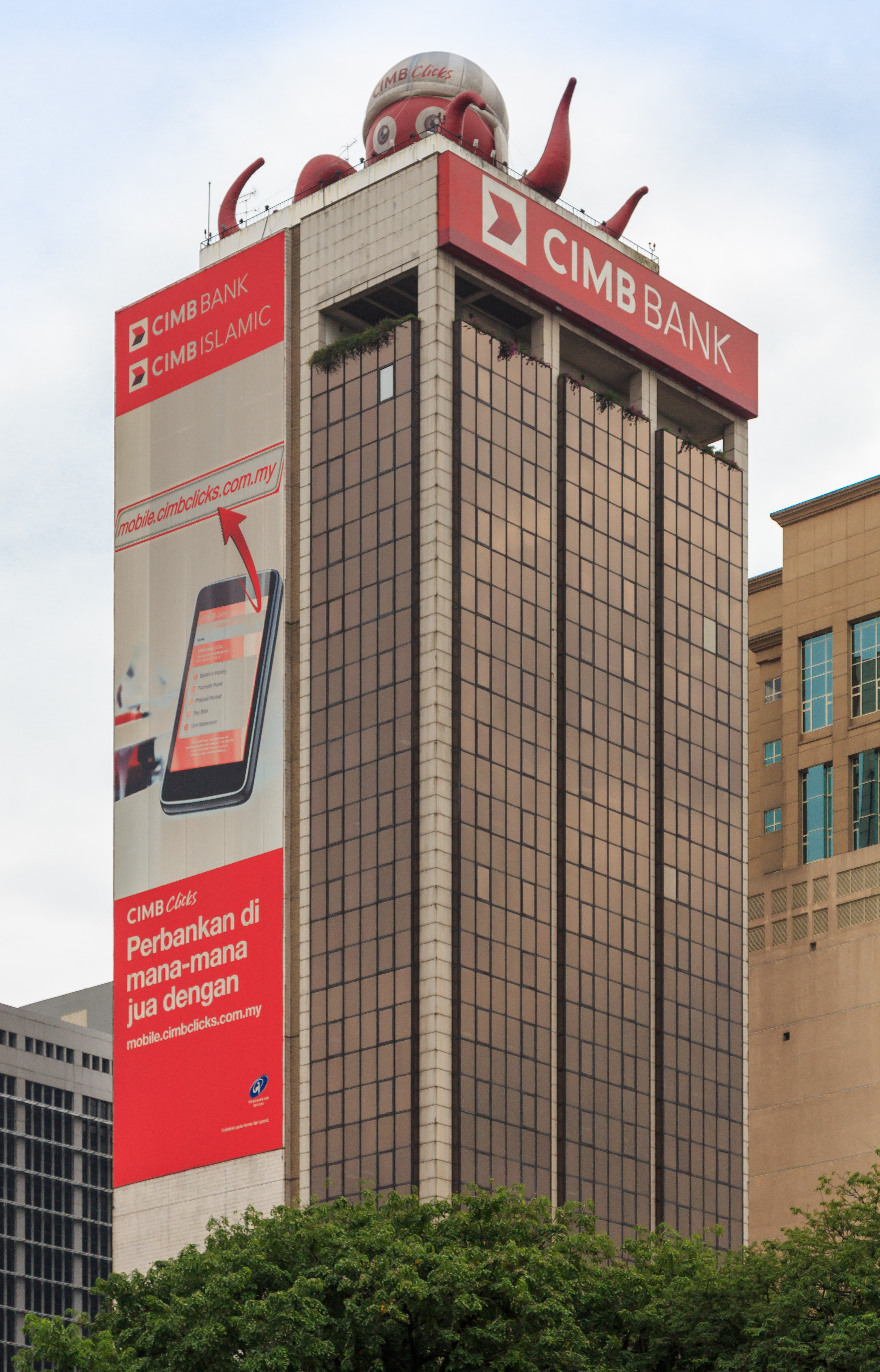 Kuala Lumpur, Malaysia: CIMB Bank Tower; former headquarters of the bank)